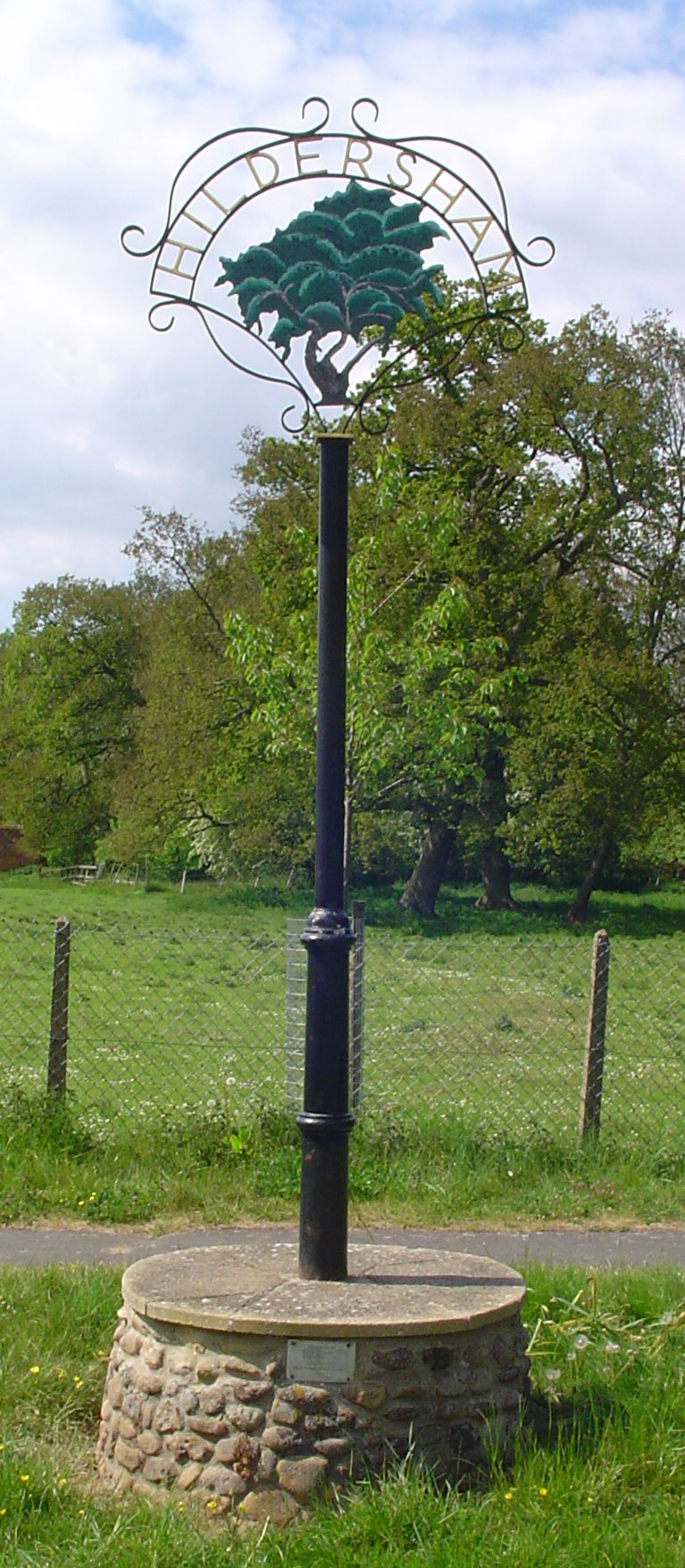 Signpost in Hildersham